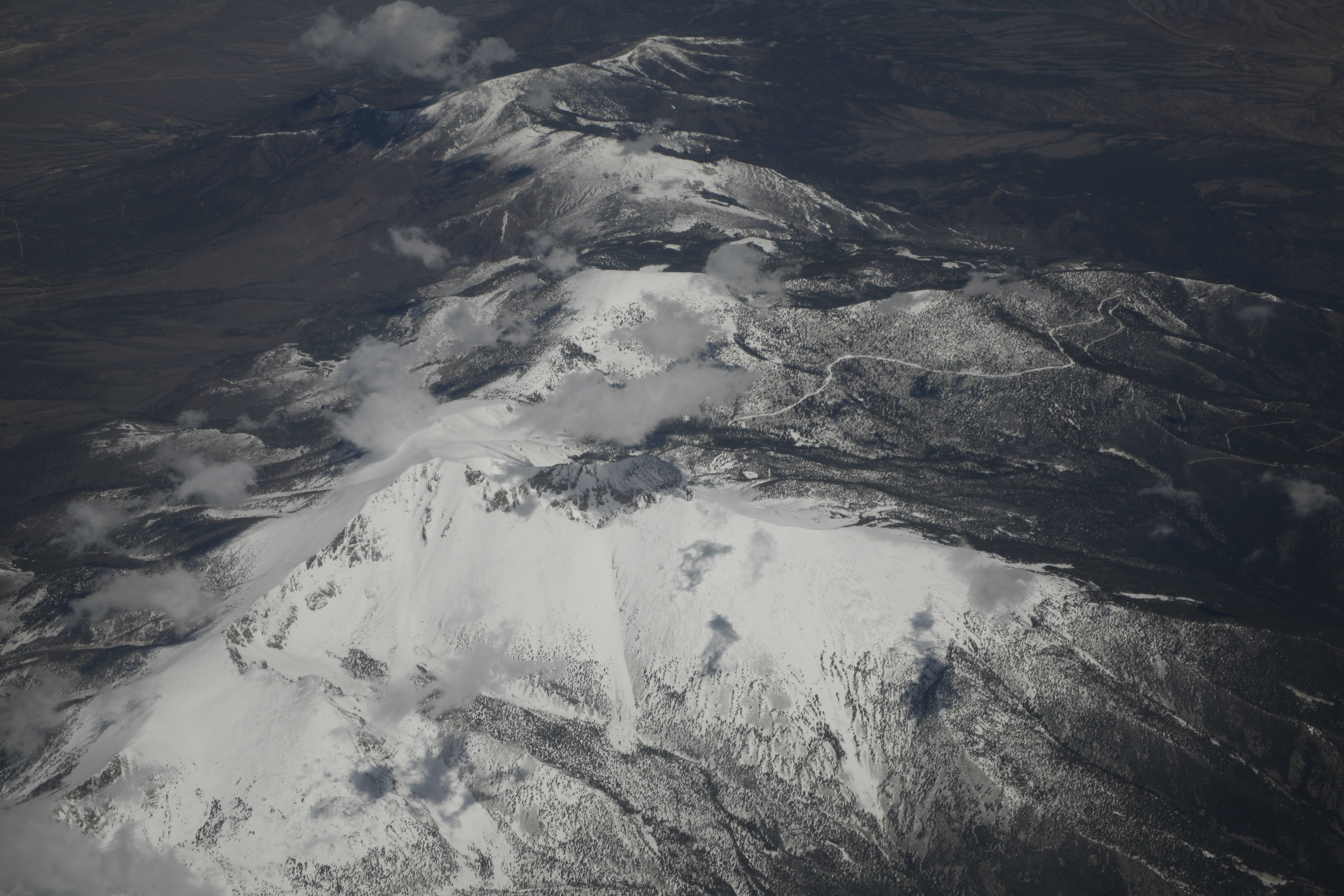 Wheeler Peak, which is in the Great Basin National Park, and the Snake Range.